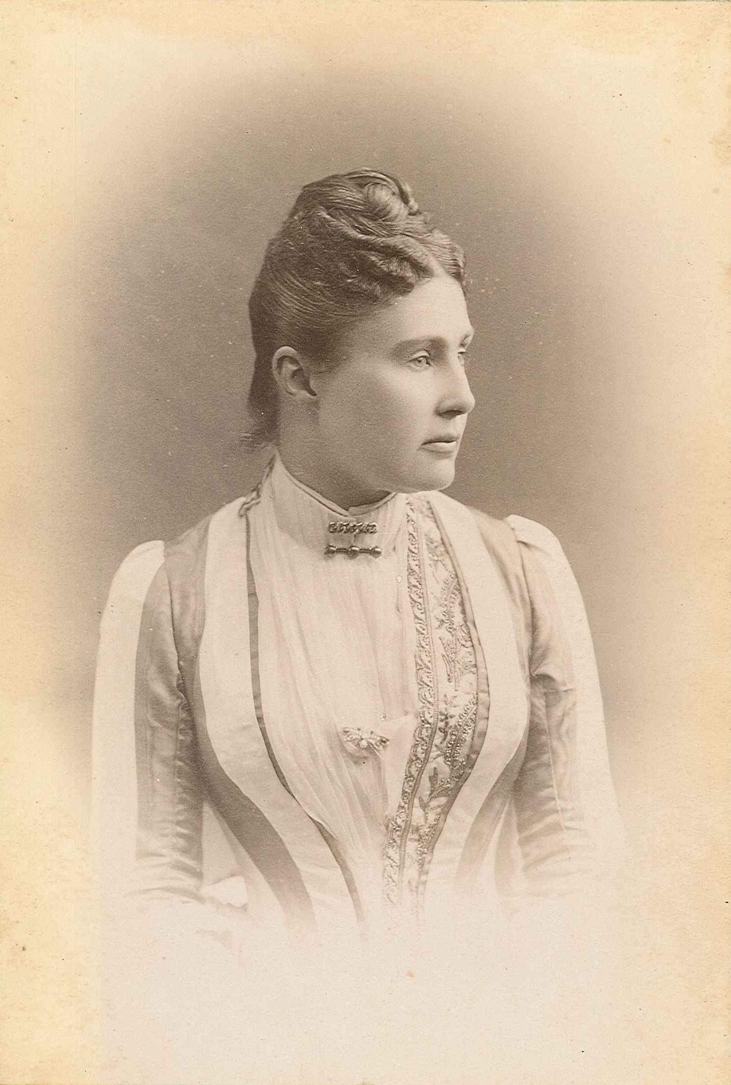 Duchess MAria Theresia of Wuerttmbger nee Archduchess of Austria